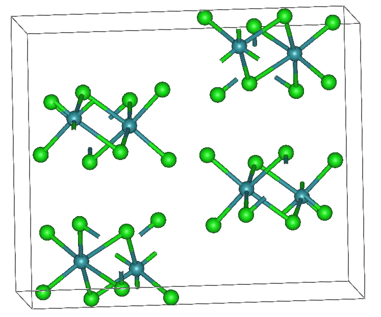 TcCl4 structure Journal = INORGANIC CHEMISTRY, WASHINGTON D.C., Year = 1966, Volume = 5, Page = 1197–1200, Title = The Crystal Structure of Technetium(IV) Chloride. A New AB4 Structure, Authors = Elder M., Penfold B.R.